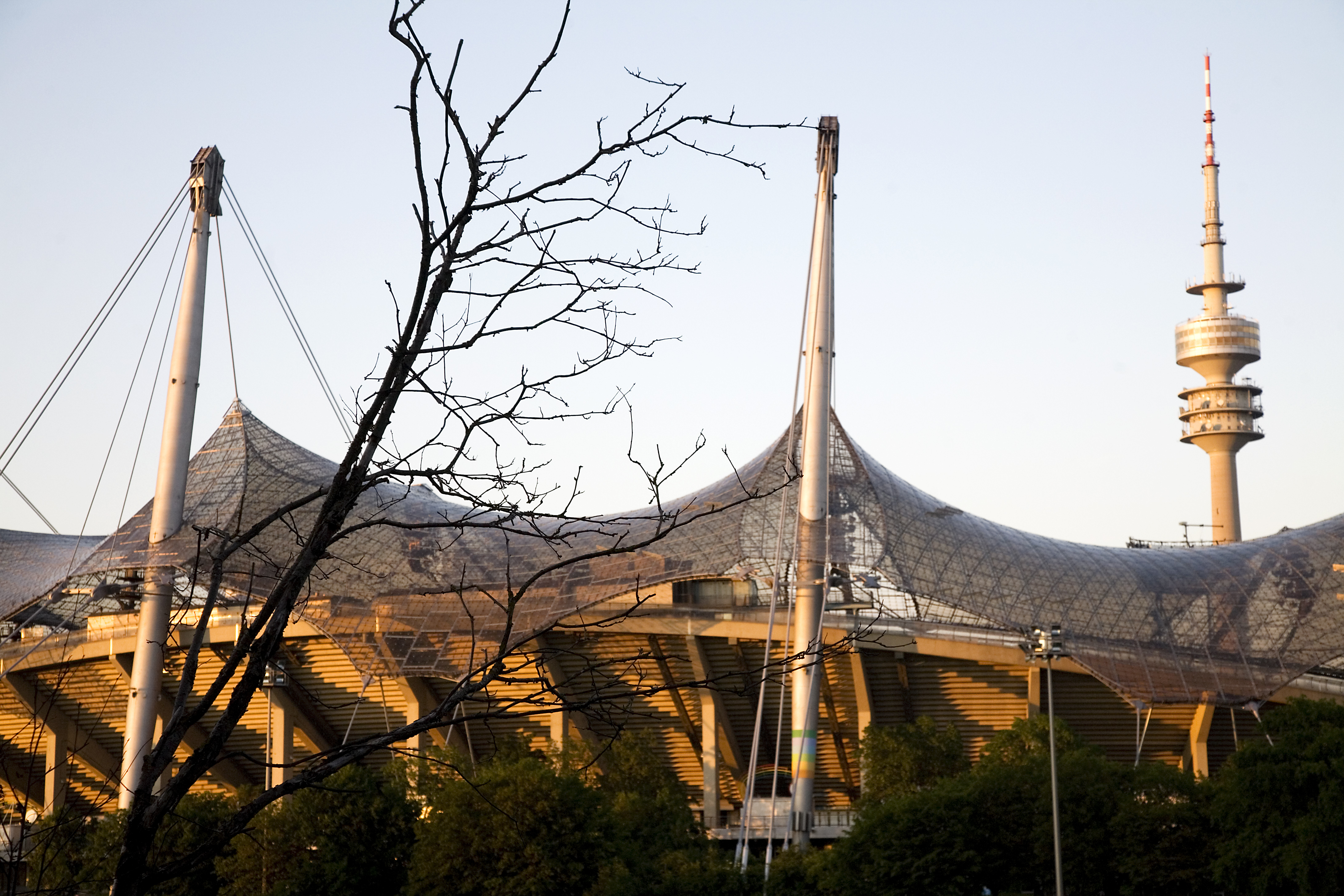 Olympic pools. Frei Otto, '72 Munich Olympics. Olympia Schwimmstadion Munich, Germany